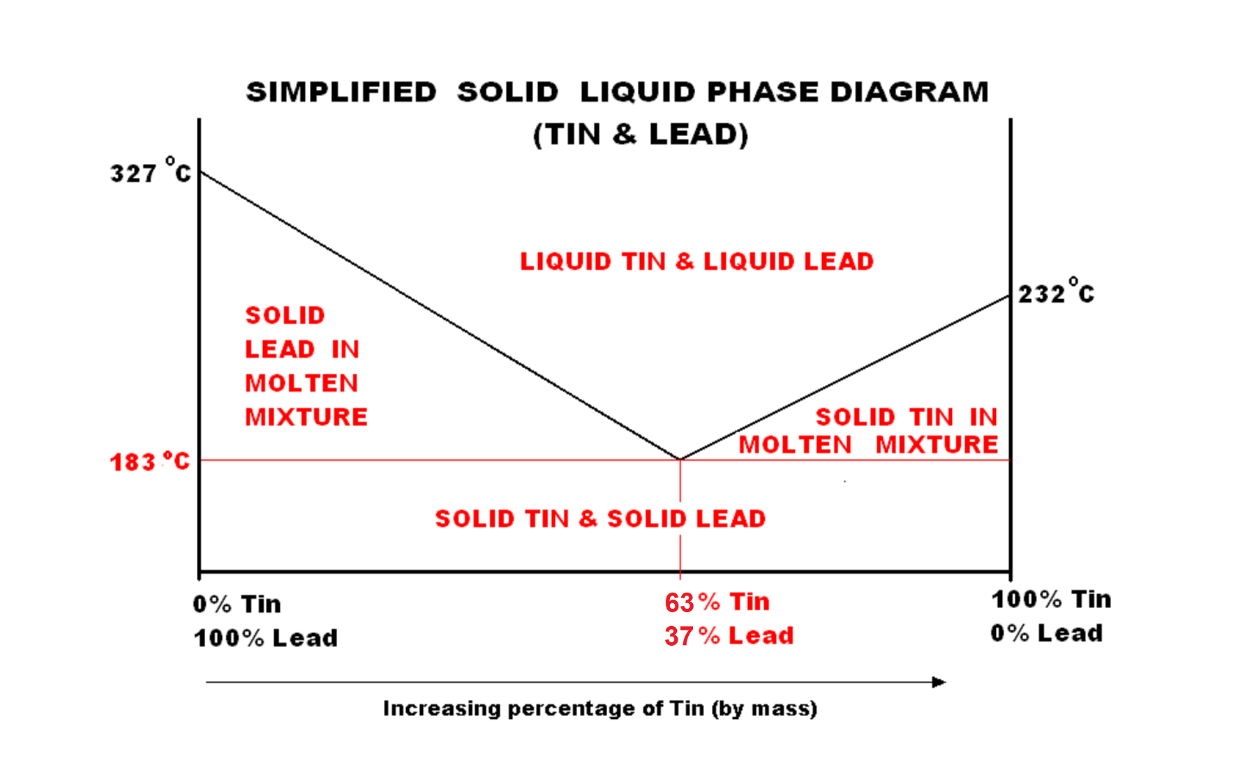 Simplified phase diagram of solid liquid tin and lead (solder).